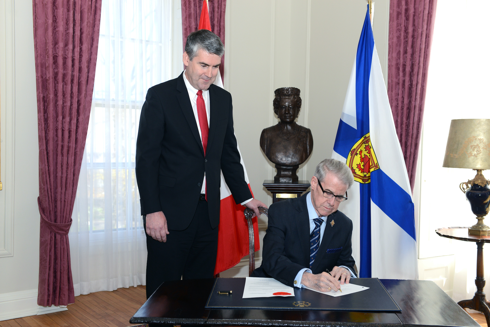 Lieutenant Governor of Nova Scotia, Brigadier-General the Honourable J.J. Grant, accompanied by the Honourable Stephen McNeil, Premier of the Province, in the Drawing Room at Government House Halifax, 30 April 2017. The Lieutenant Governor is signing the Order-in-Council (2017-160) dissolving the legislature and calling a provincial general election "Dropping of the Writ."